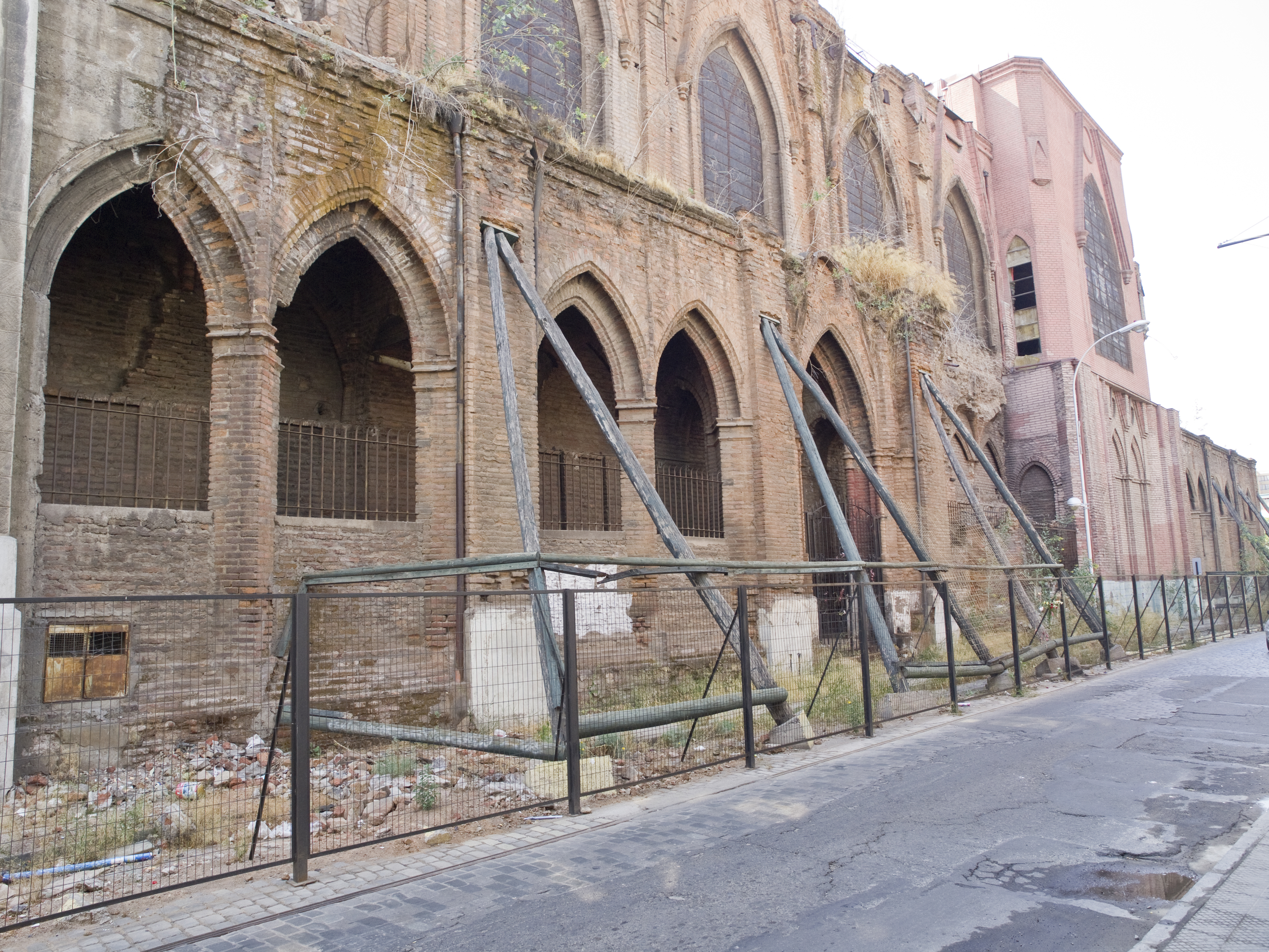 A view of damage to the Basilica del Salvador in Santiago, Chile. Earthquakes in 1985 and 2010 have closed the basilica until repairs can be completed.